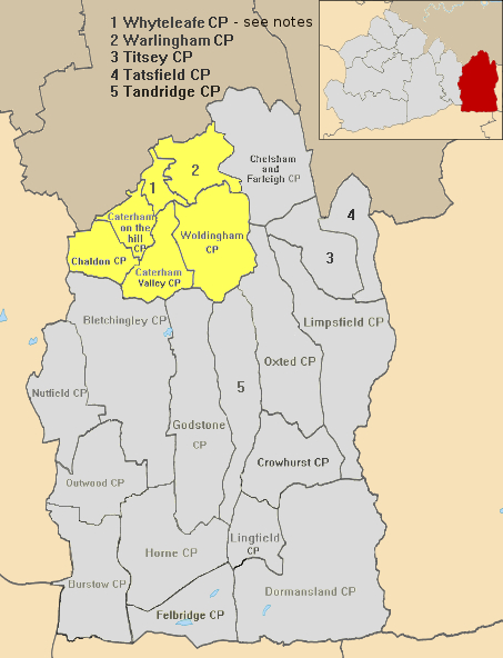 Adapted from earlier improved work Tandridge.png simply adding highlighting for historic contributor part.